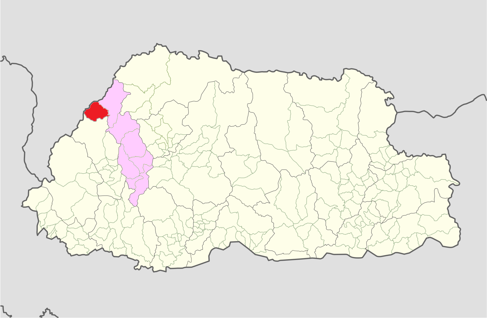 Soe Gewog within Thimphu District, Bhutan